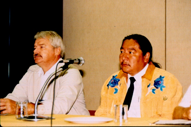 caption: Manitoba Cree Elijah Harper with Menno Wiebe. Citation: Mennonite World Conference. Twelfth Mennonite World Conference, 1990, Winnipeg, Canada. Slides by T. Klassen; Script by John Dyck. X-9 Box 52 Folder 4 Slide 43. Mennonite Church USA Archives - Goshen. Goshen, Indiana.